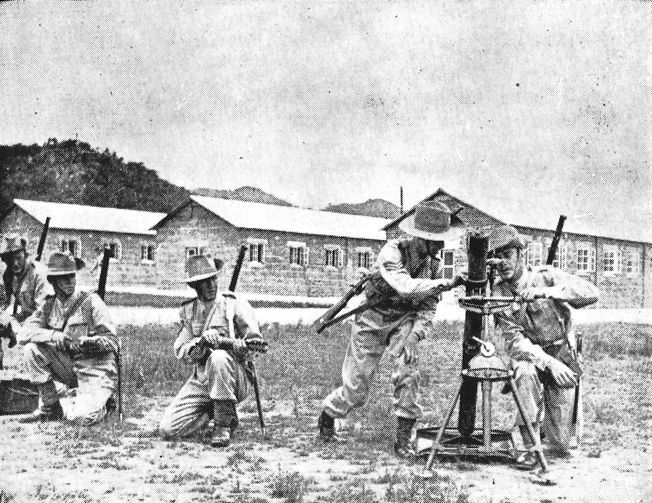 Men of the Southern Rhodesia Reconnaissance Unit training with mortars at Umtali; 1942